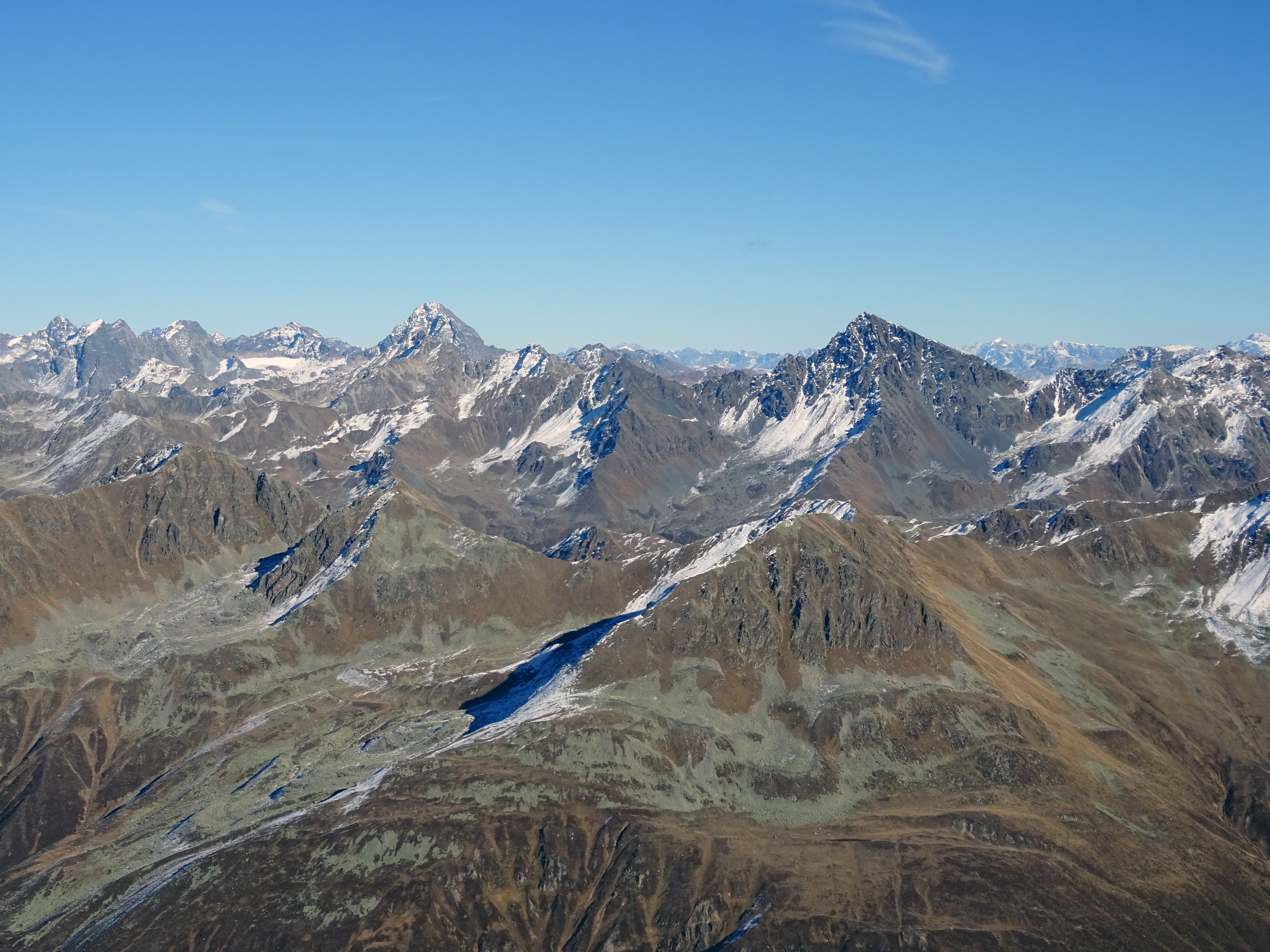 Piz Linard and Flüela Schwarzhorn, picture taken from Älplihorn (Davos, Grison, Switzerland)